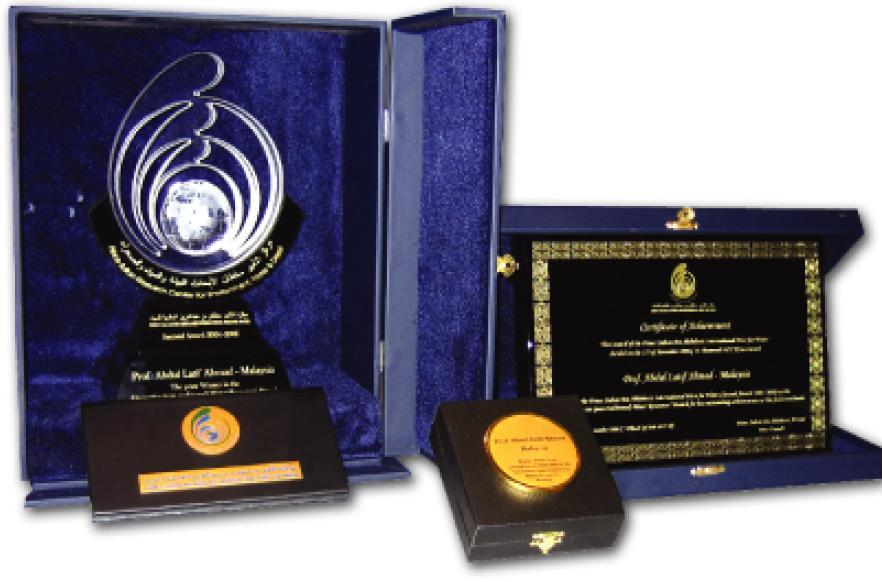 This is an image showing the trophy, certificate and medallion of the Prince Sultan Bin Abdulaziz International Prize for Water. This image as well as all the content of is released under the GFDL, as clearly stated on the PSIPW website.